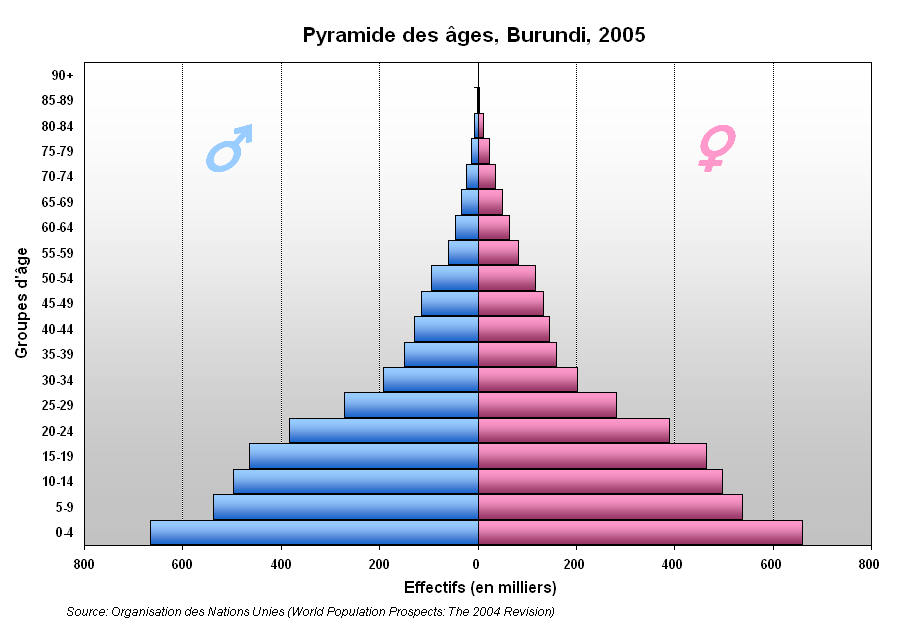 Burundi Population pyramid, 2005